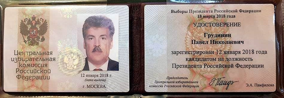 The identity of the candidate in Presidents of the Russian Federation, in the elections of 2018. Grudinin Pavel. Communist party